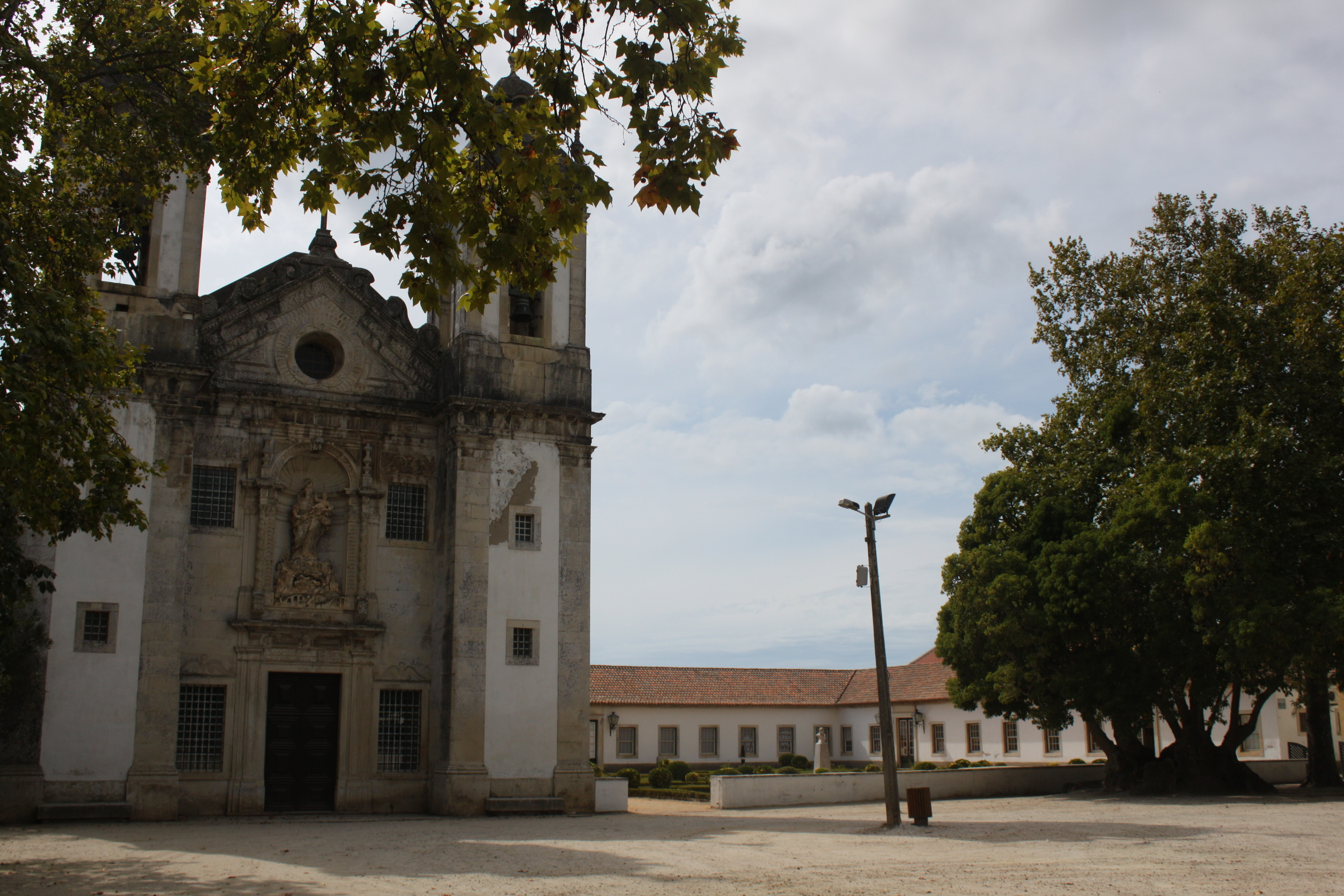 This file was uploaded for Wiki Loves Monuments in Portugal with the unique identifier 70176.